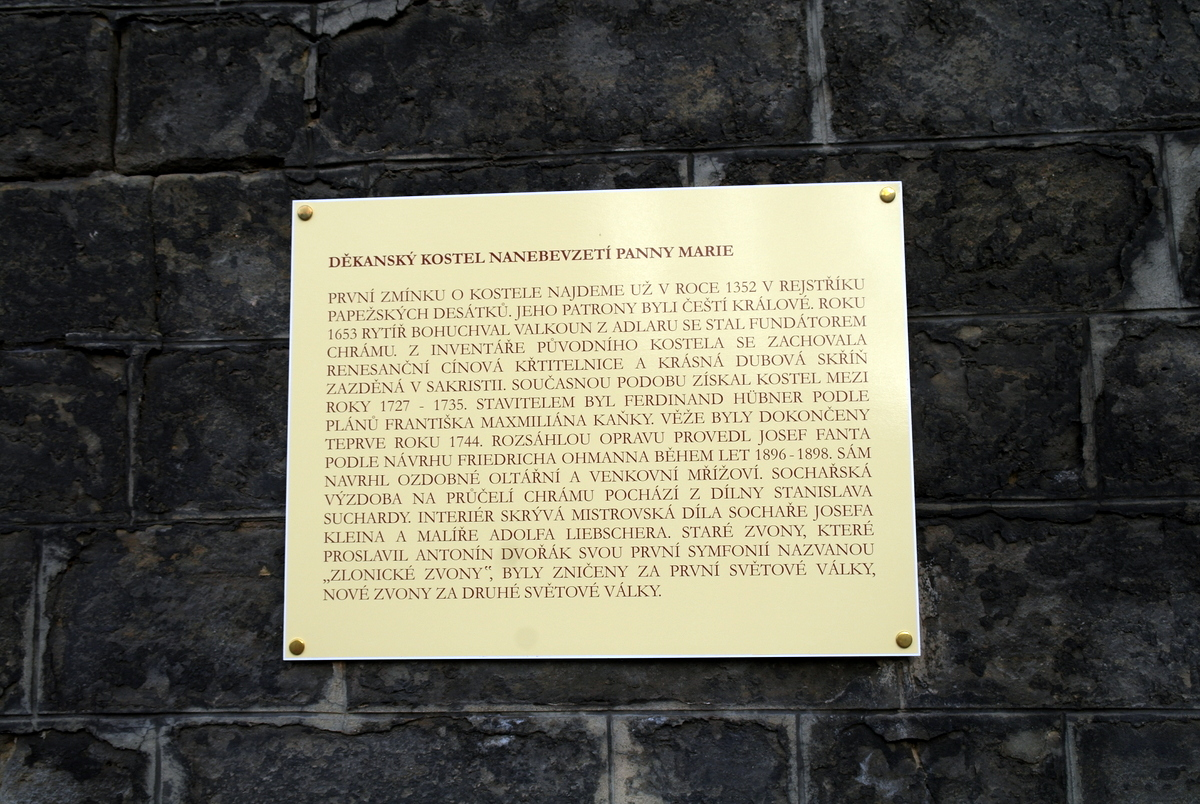 Church of the Assumption of the Virgin Mary, Square, Zlonice. Information board.